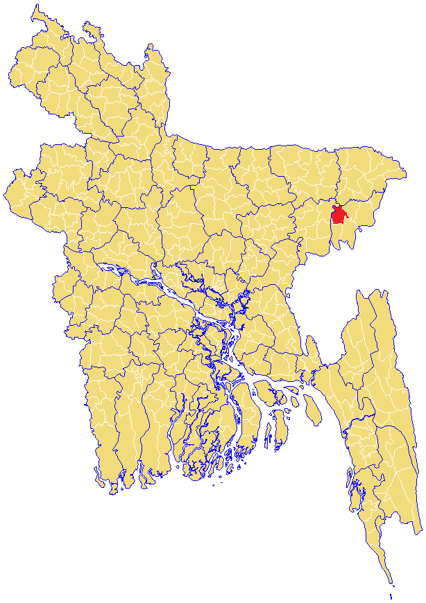 Map of Maulvibazar Sadar Upazila, Maulvibazar District, Sylhet Division, Bangladesh